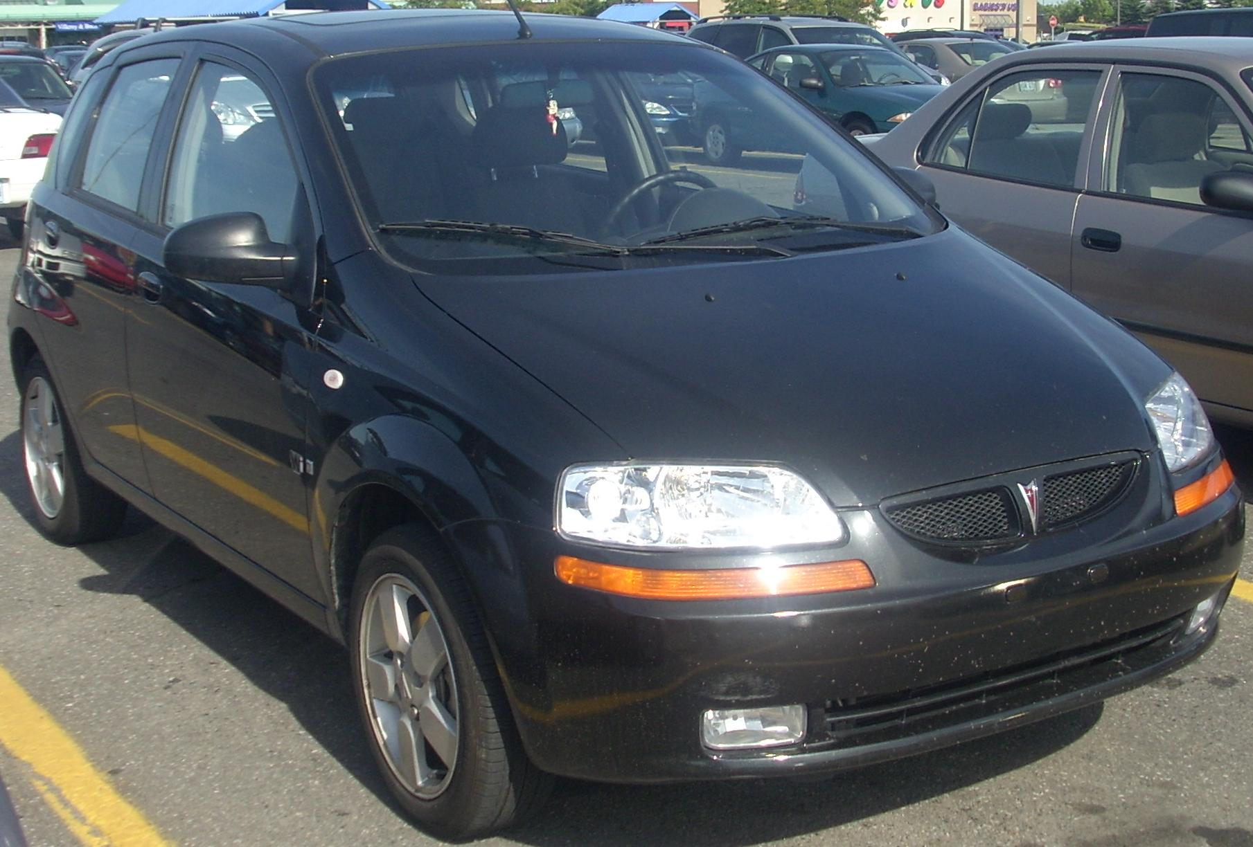 2007-2008 Pontiac Wave photographed in Montreal, Quebec, Canada.